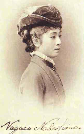 Nabeshima Nagako wife of Nabeshima Naohiro